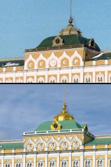 Image comparing the top of the facade of the Grand Kremlin Palace between the Soviet era (above) and after the dissolution of the USSR (below).